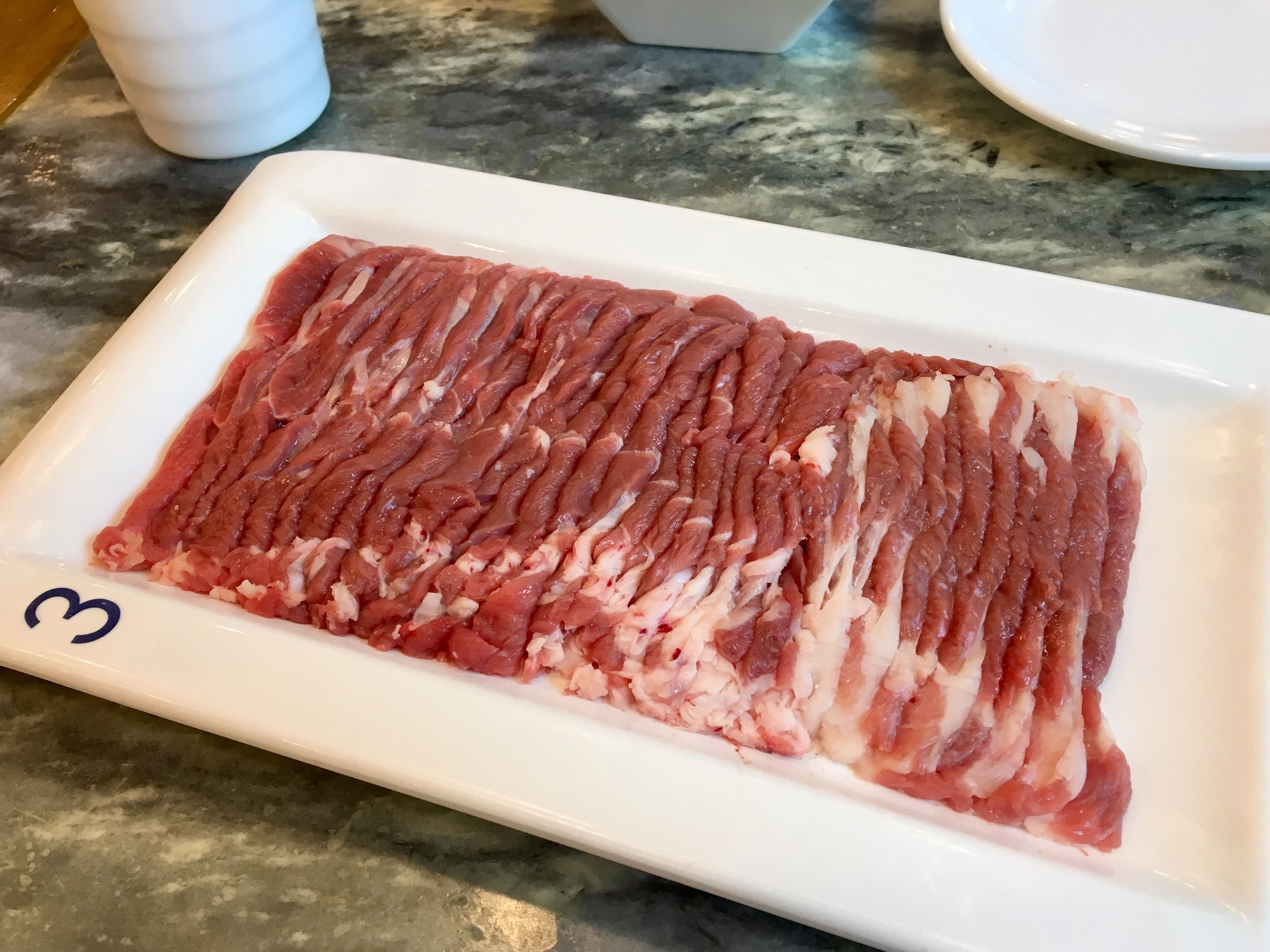 Hand-cut lamb slices for hotpot